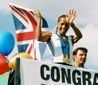 Photo of Kelly Holmes in Hildenborough, Kent, UK during her homecoming parade following the 2004 Summer Olympics.